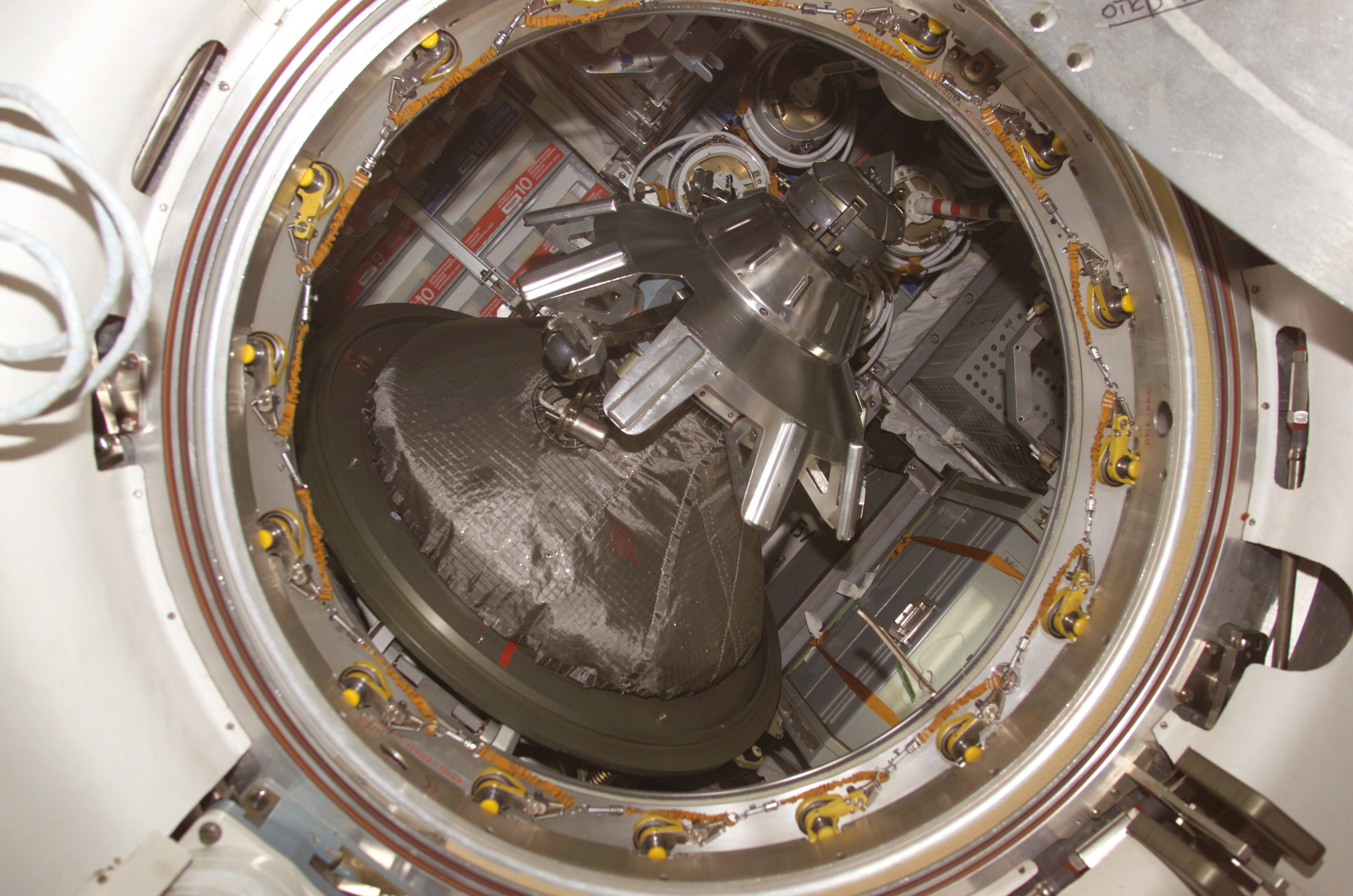 Looking into the Progress 15 supply vehicle docked to aft port on the Zvezda Service Module of the International Space Station (ISS), this view shows the probe-and-cone mechanism on the hatch.